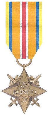 Polish Congo Star obverse